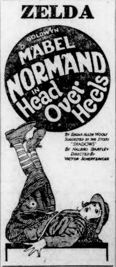 Newspaper advertisement for the American comedy film Head over Heels (1922) with Mabel Normand, on page 13 of the September 6, 1922 Duluth Herald.